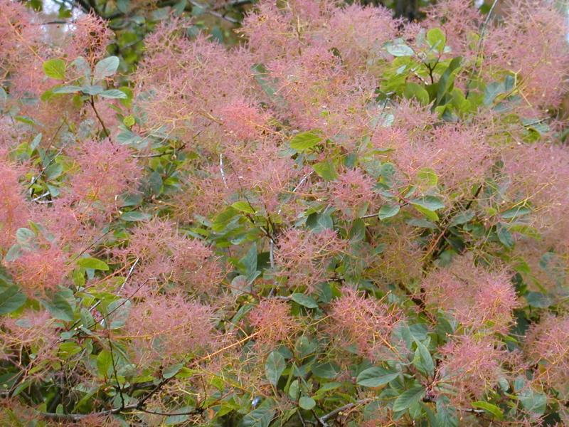 Cotinus coggygria Picture taken with Olympus 740 UltraZoom.